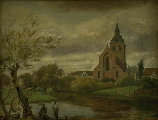 The painting "Efterårsdag ved Odense Å. Skt. Knuds Kirke set fra Blegepladsen"